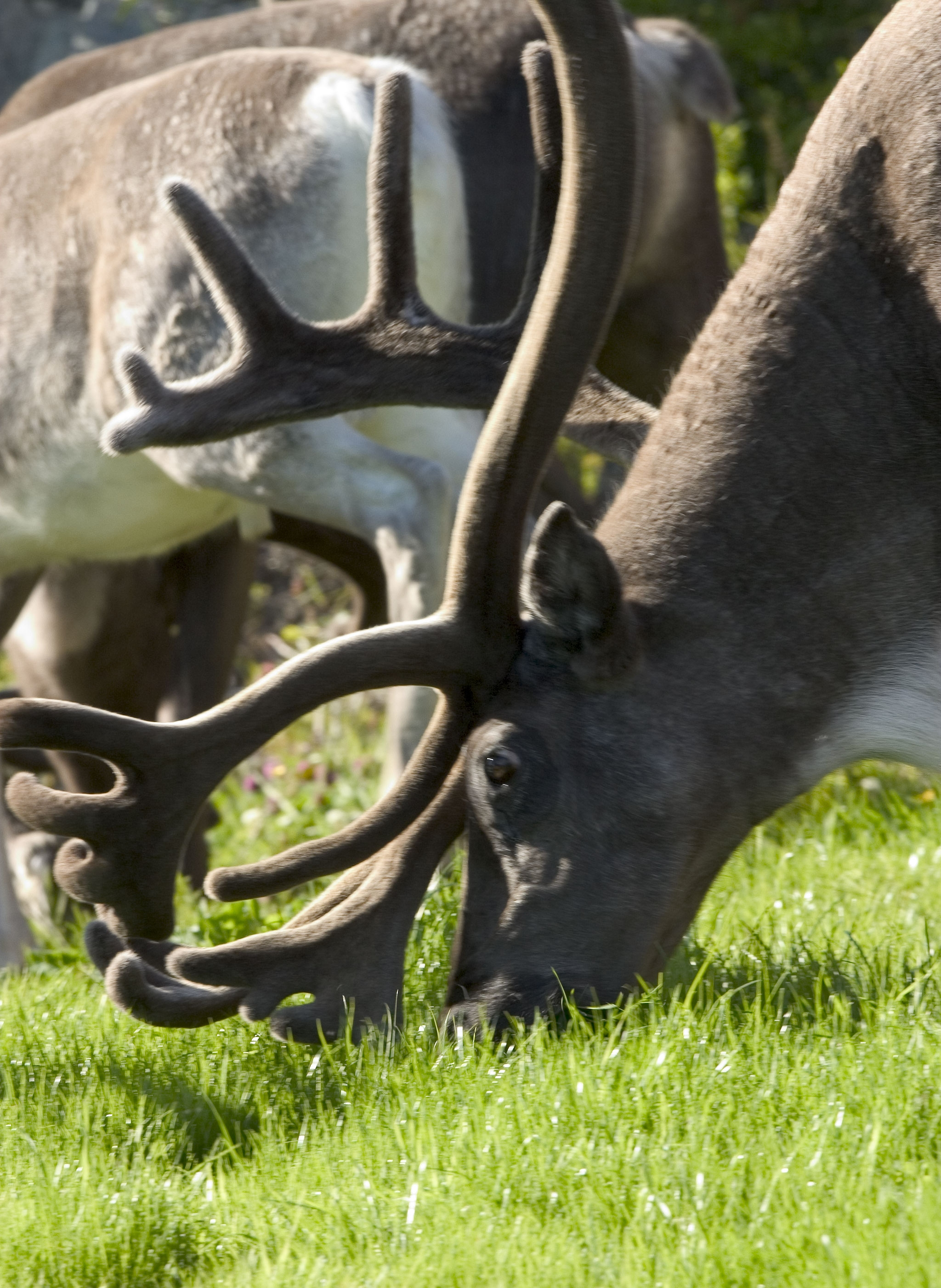 Reindeer at Kirkenes. Arctic Ocean, north of western Russia.